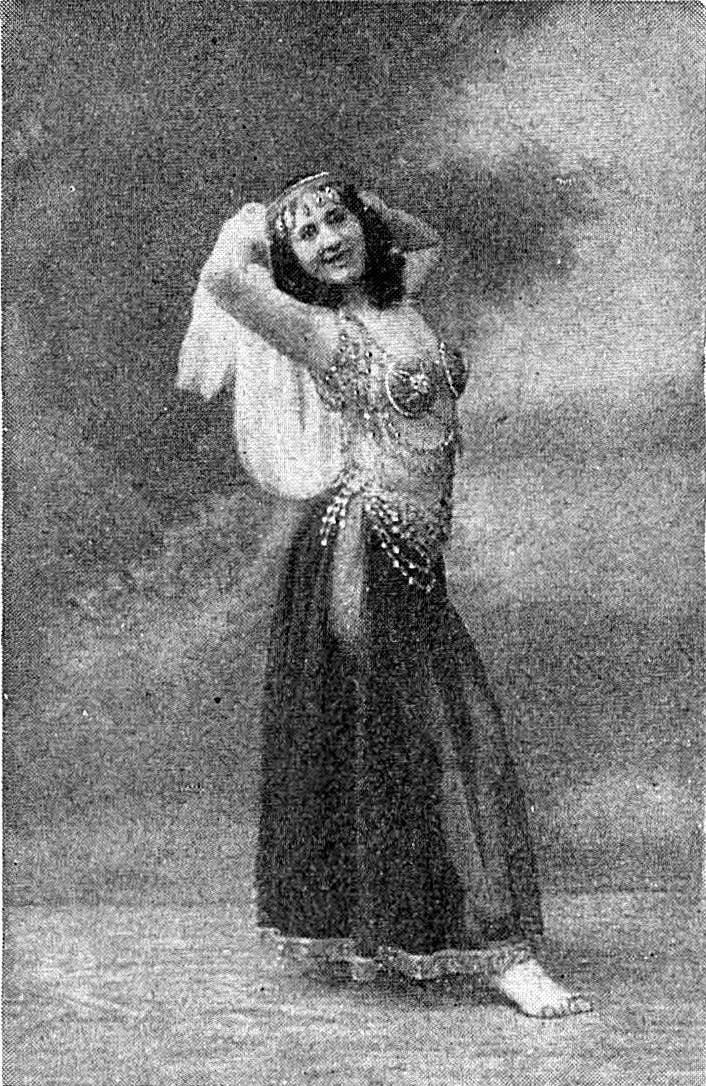 Mariotte - Salomé - Mlle de Wailly 1 from Comœdia illustré, 15 December 1908